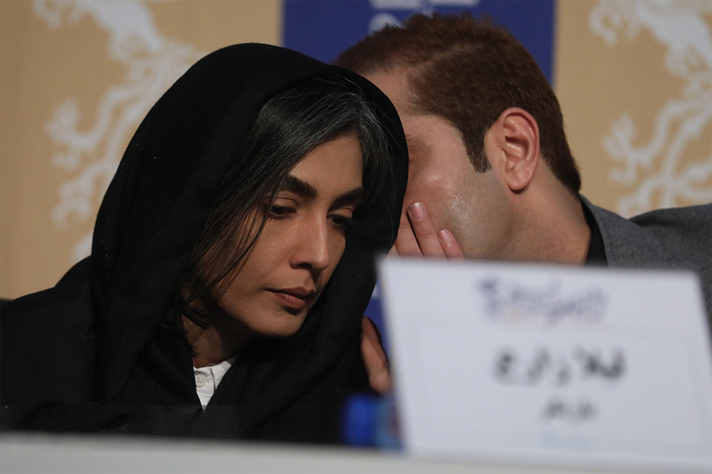 Day of Chaos movie press conference at the 38th edition of the Fajr Film Festival at Mellat cineplex